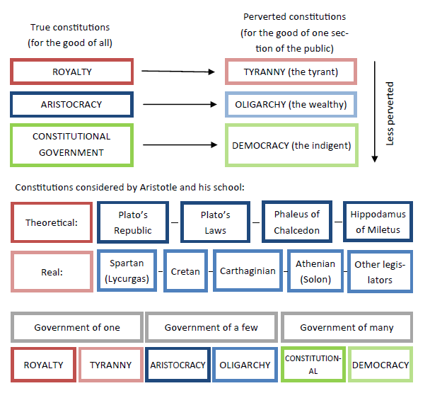 A simplified form of File:Aristotle-constitutions-2.png